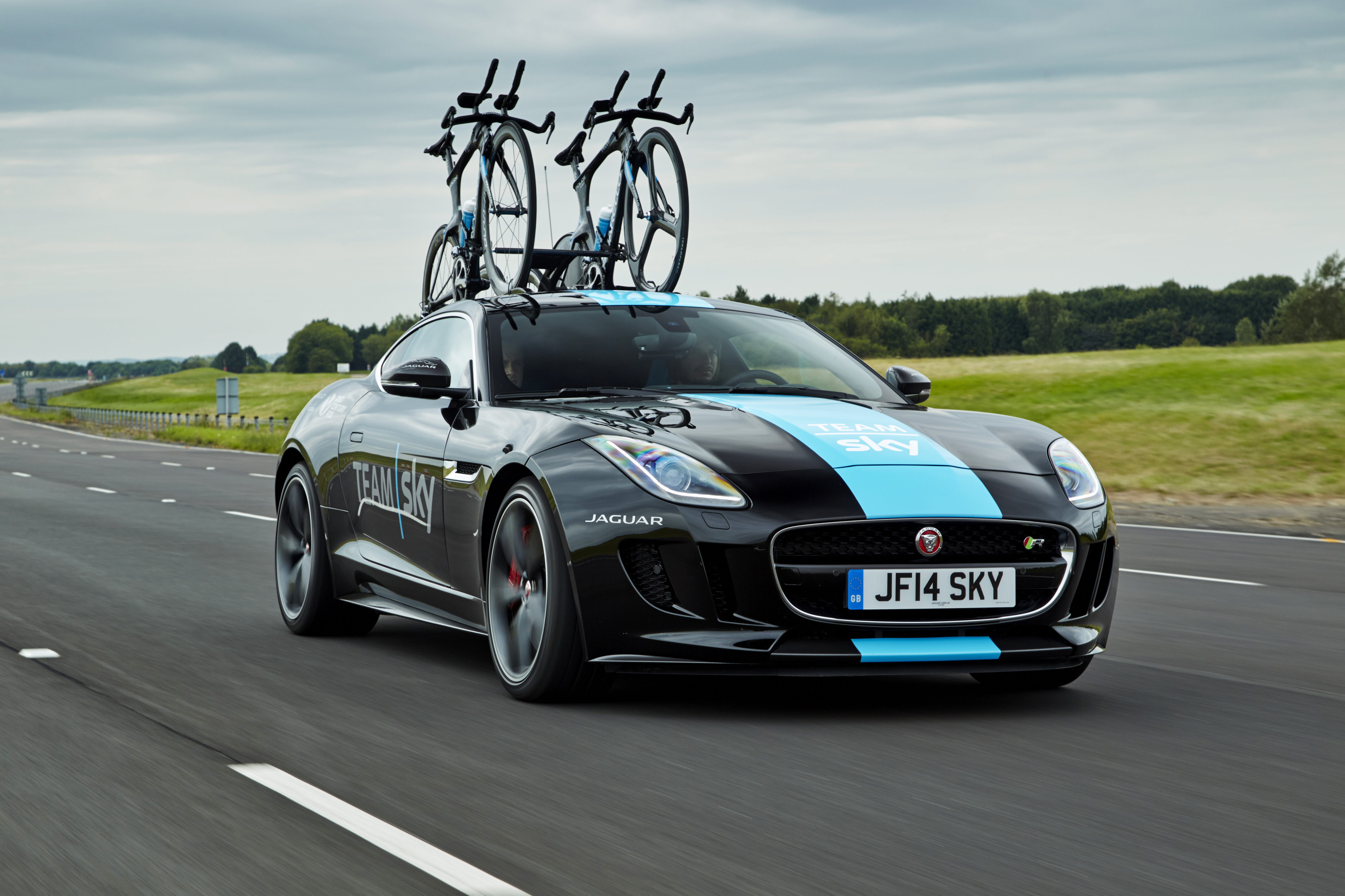 With Richie Porte in a strong position in the current overall classification at the 2014 Tour de France for Team Sky, Jaguar has extended its support as an Innovation Partner to Team Sky by designing, engineering and building a bespoke F-TYPE Coupé high performance support vehicle, for the team to use during stage 20 of the competition. Stage 20 of the 2014 Tour de France will see riders traverse from Bergerac to Périgueux. Read more: bit.ly/1qWj7GZ